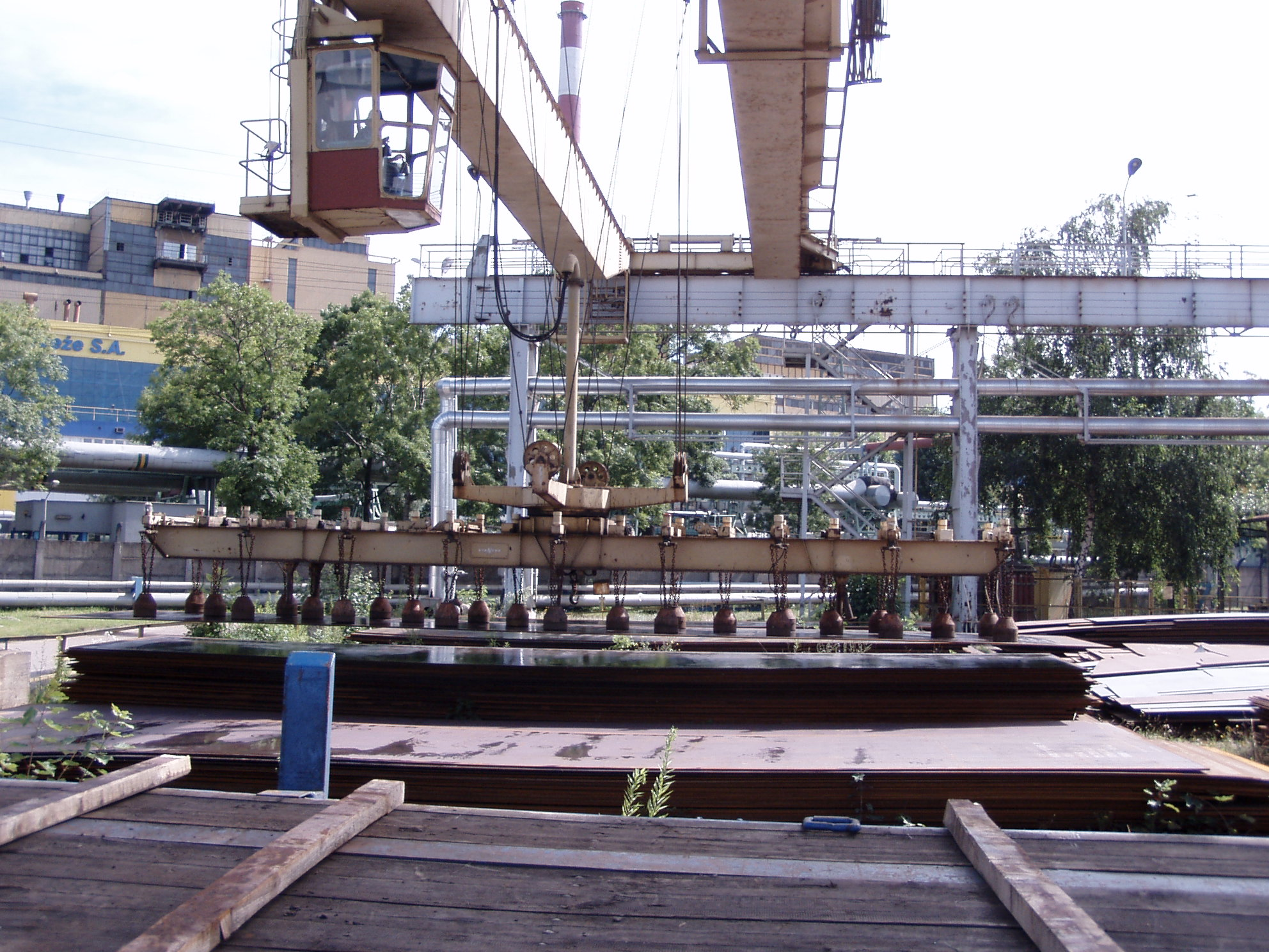 Gantry crane with electromagnets in Remontowa Yard Gdansk